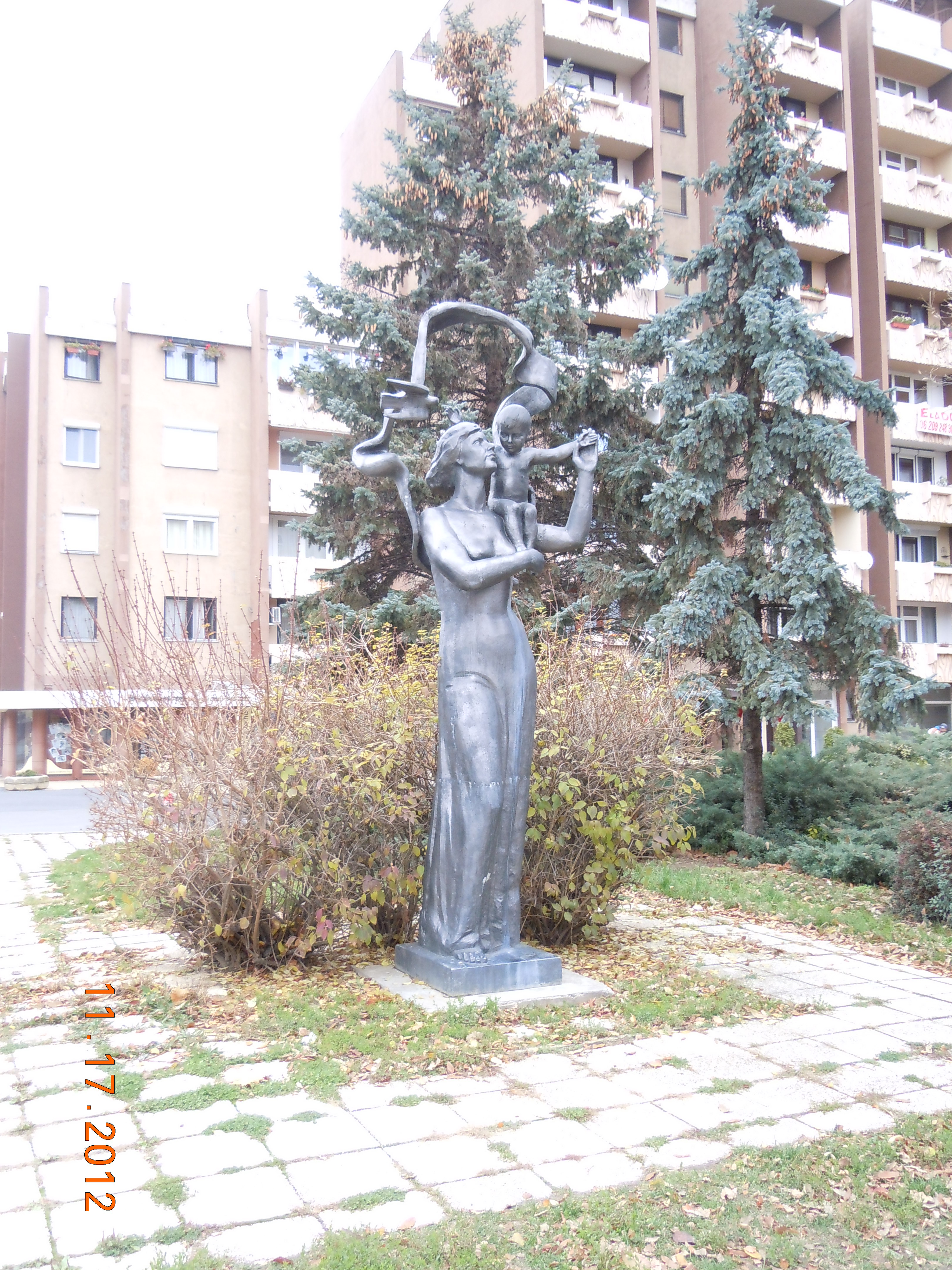 Szombathely, Hungary